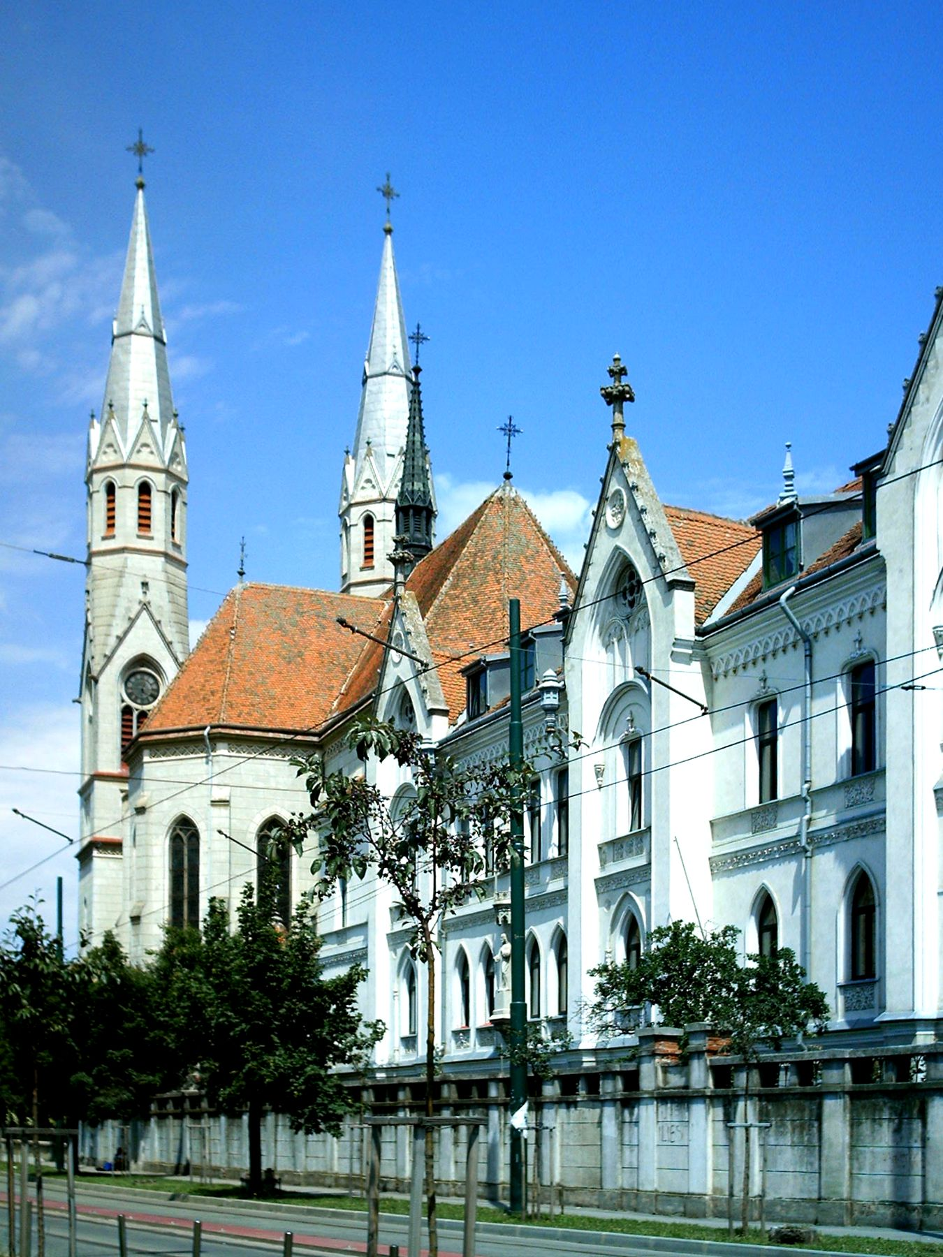 Catholic Church "Sacred Heart of Jesus" in Elisabetin, Timisoara, Romania (Karl Salkovics, 1919).